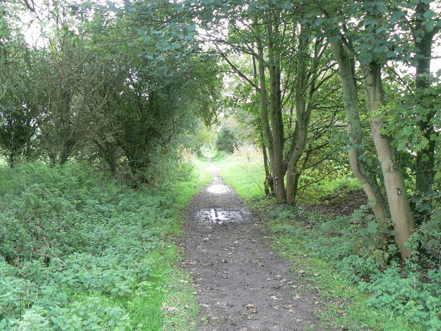 Trackbed of former Midland & SouthWestern Junction Railway